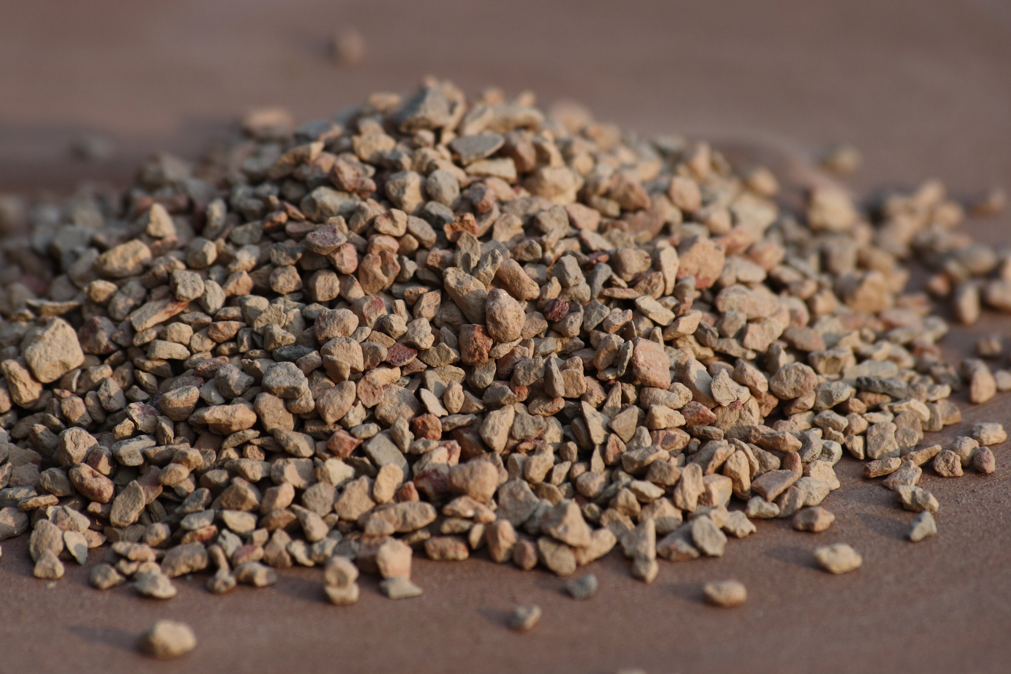 The larger grains of arcillite (calcined montmorillonite clay) sifted from Schultz Aquatic Plant Soil, separated for use in bonsai soil.